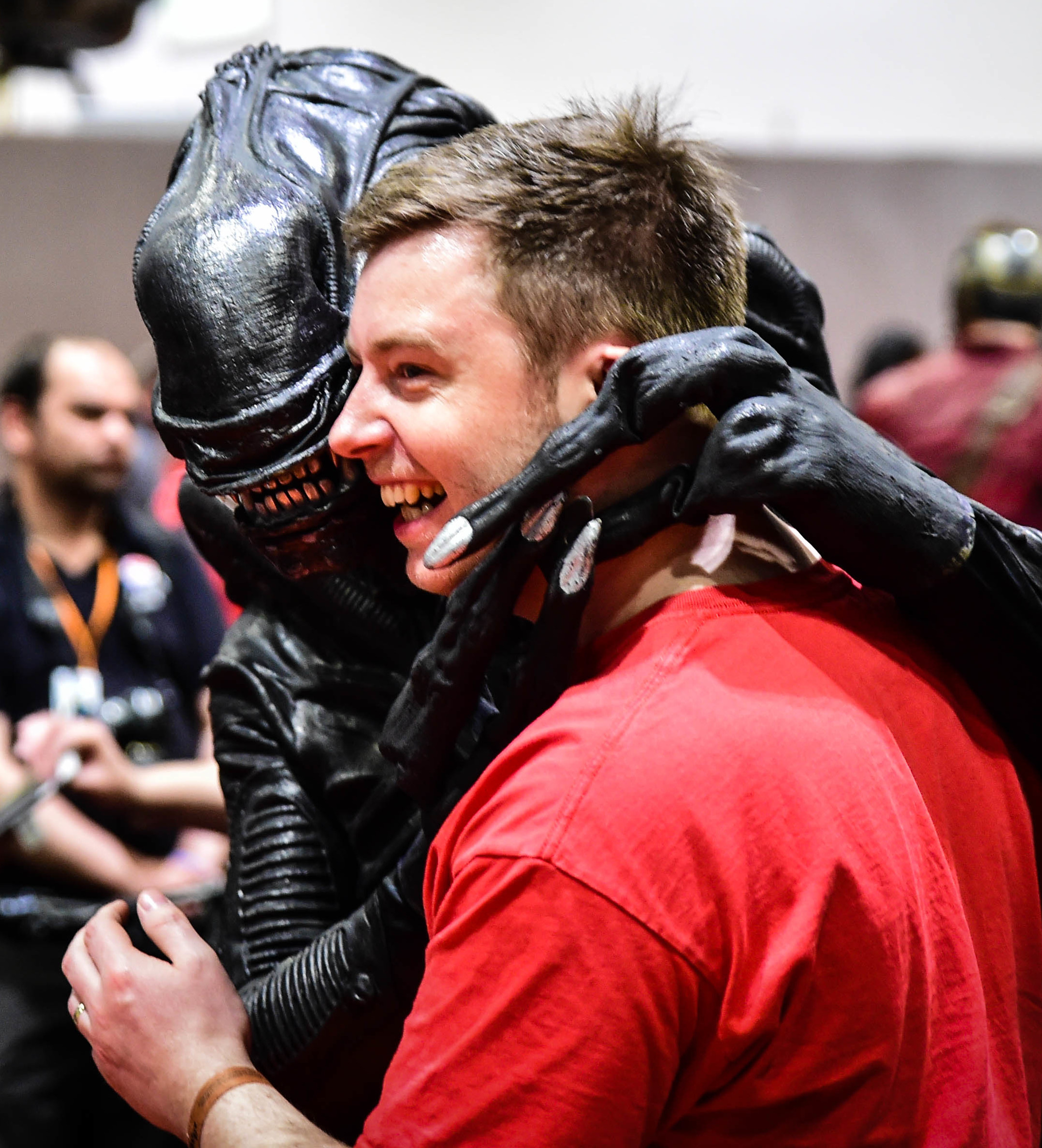 Cosplay at MCM London Comic Con 2015.